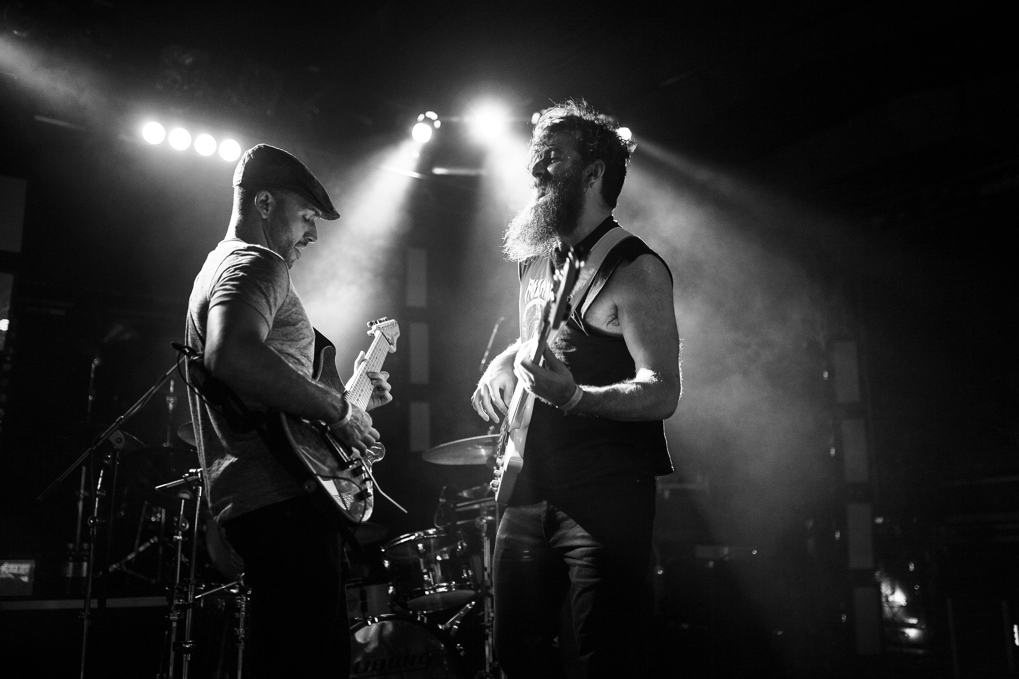 The Number Twelve Looks Like You during their tour with The Dillinger Escape Plan in Europe. Leipzig, Germany, 2017.